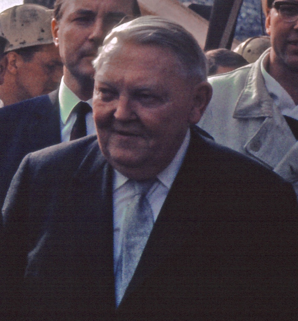 Front row from left: Prime Minister (North-Rhine/Westphalia) Franz Meyers, Assessor Bähr, Federal Chancellor Ludwig Erhard, Bergwerksdirektor Helmuth Heintzmann to 2. April 1965 with the attendance of the bill Friedrich der Große, pit 6, in Herne